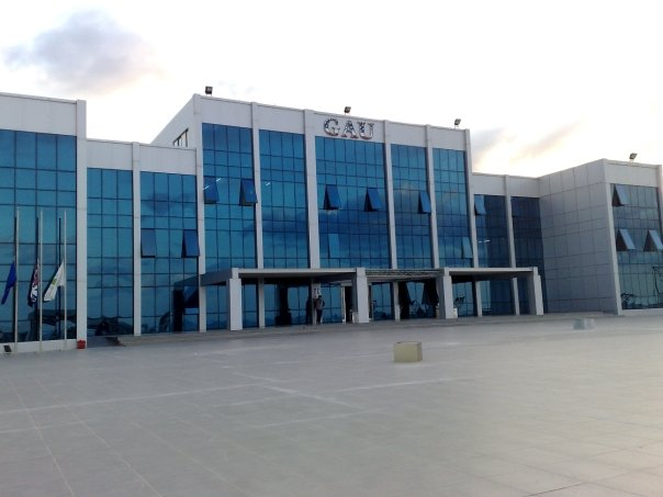 The picture was taken at Girne American University, Millenium Building.